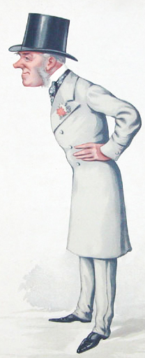 Caricature of George Coventry, 9th Earl of Coventry. Caption read "Covey".